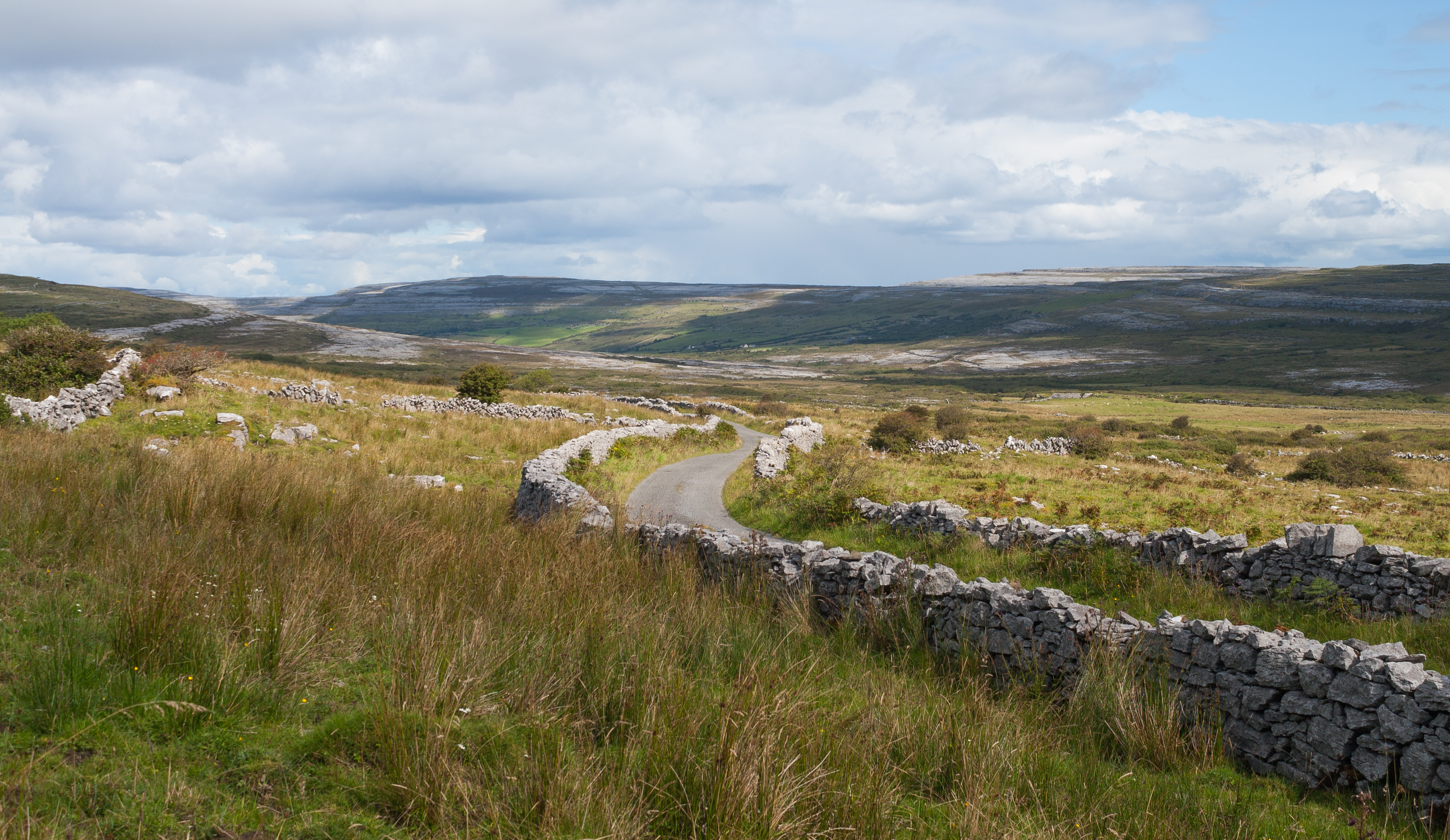 Side road leading from the R477 to N67 through a valley of the Burren mountains.